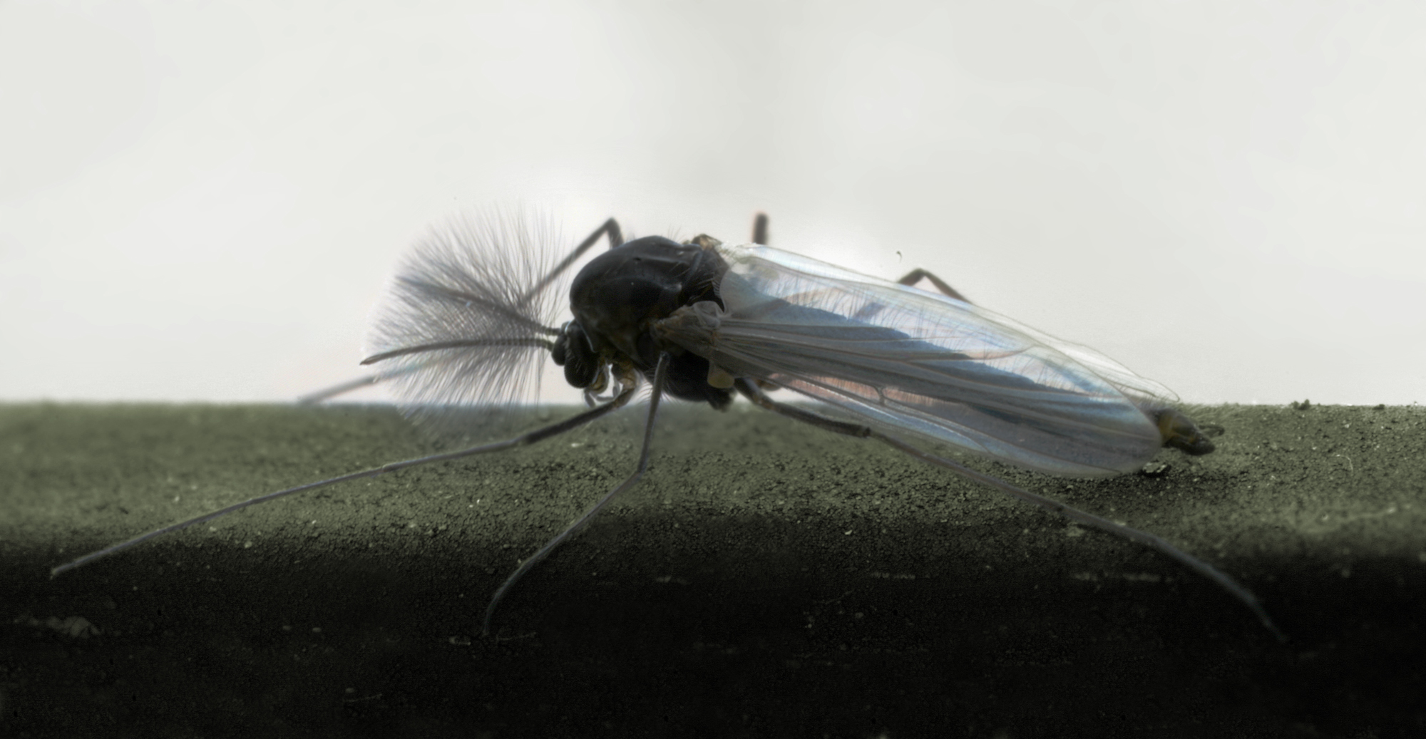 Chironomidae are closely related to the Corethrellidae and Chaoboridae, the adults are differentiated through peculiarities in wing venation: 6-8 in Chironomidae and at least 10 in Chaoboridae. Commonly known as non-biting midges, this is a family with a cosmopolitan distribution. Often they occour in masses.